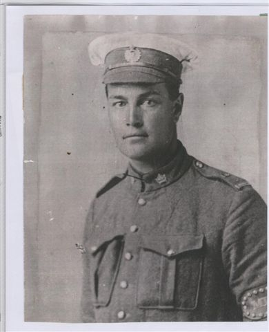 Private Joseph Pappin, 130 Battalion, Canadian Expeditionary Force. Related to: Image:Peter_Pappin_Guard.jpgit is a photograph that was created before January 1, 1949 The copyright designation was chosen as the best match based on the description of its usage: "for Canadian photographs not subject to Crown copyright taken before 1949.".